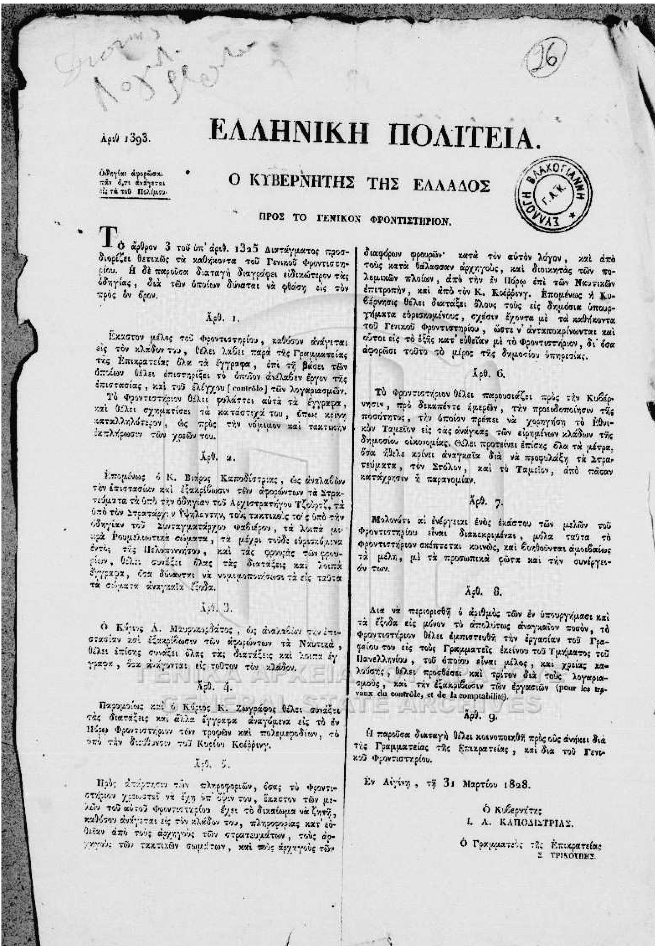 Order of the Governor of Greece Capo d'Istria for the duties of Genikon Frontistirion